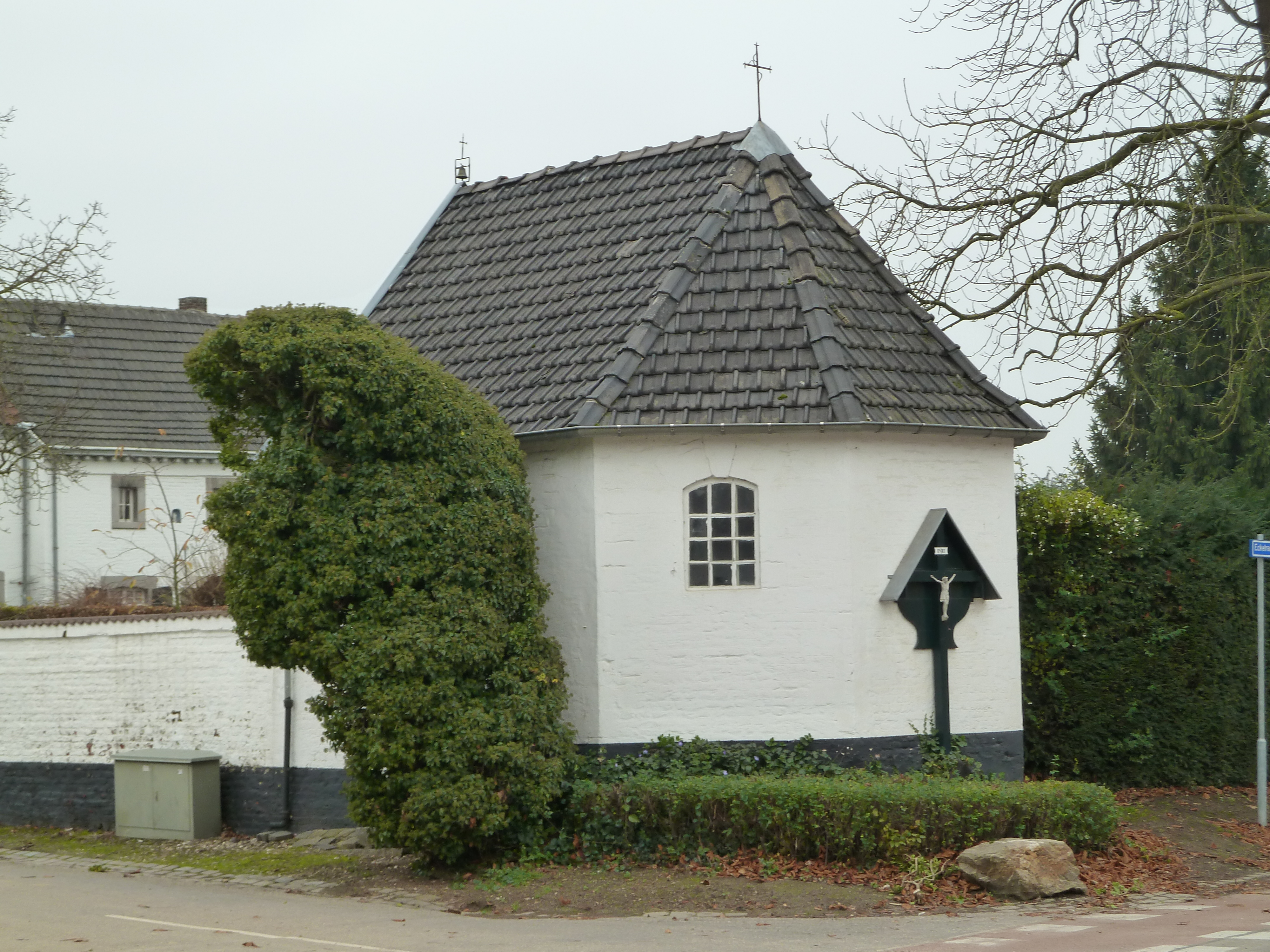 Chapel near Eckelraderweg 12-14, Eckelrade, Limburg, the Netherlands